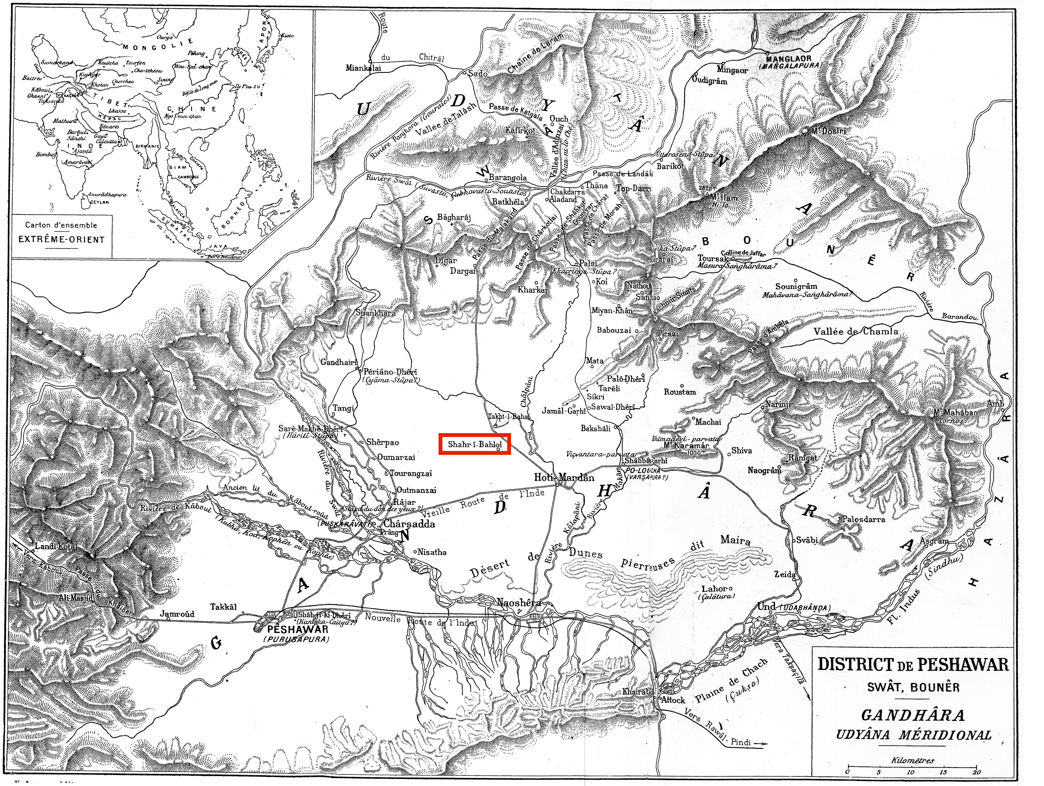 Gandhara Sahr-i-Bhalol